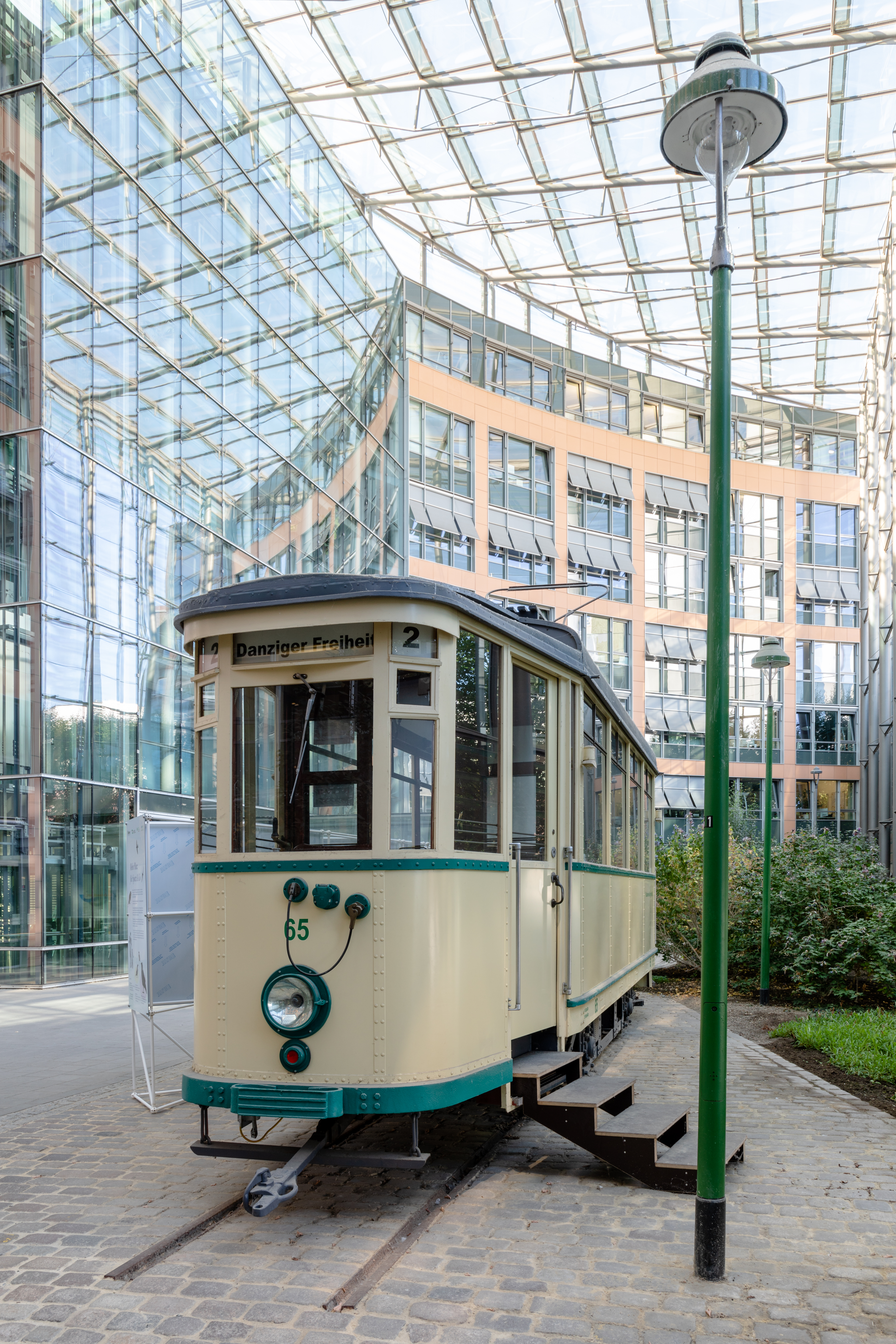 Tram (railcar 65) in the Stadthaus 3, Münster, North Rhine-Westphalia, Germany